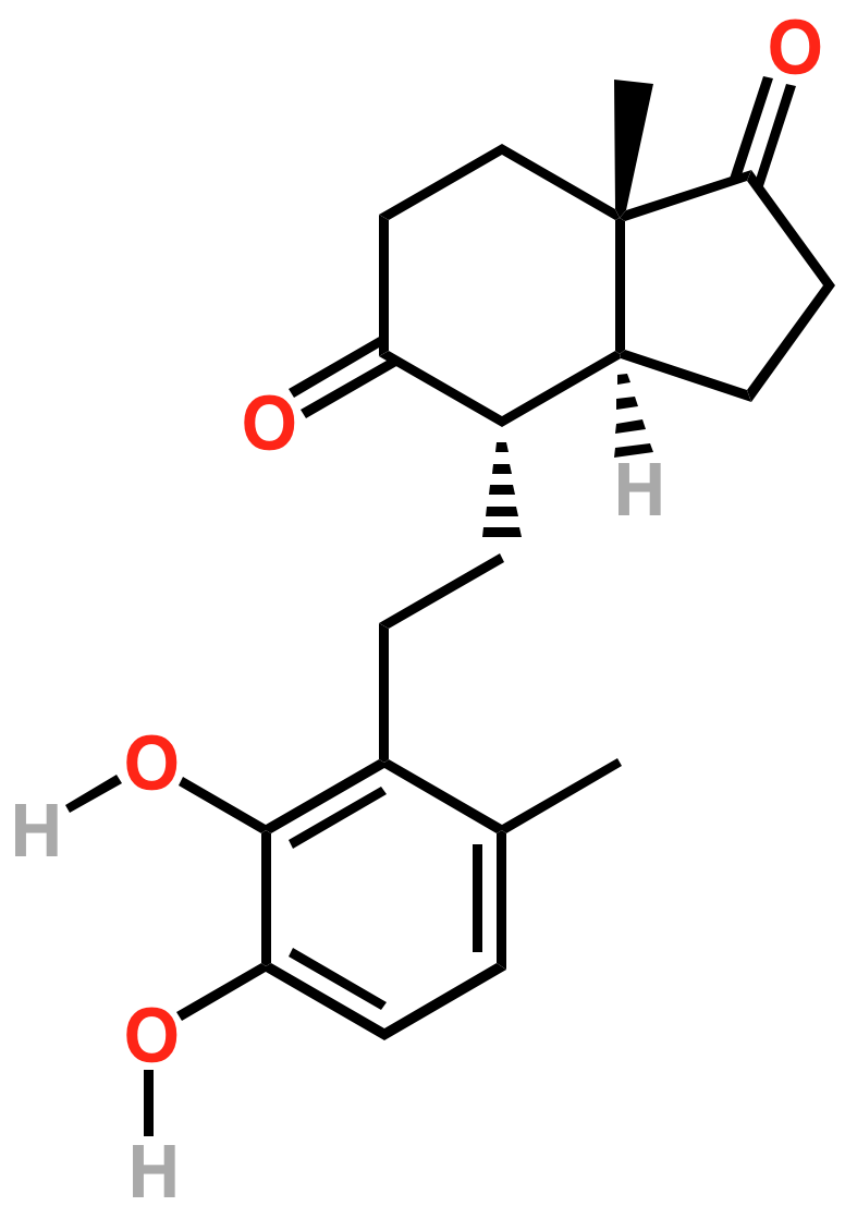 Chemical structure of DHSA (3,4-Dihydroxy-9,10-secoandrosta-1,3,5(10)-triene-9,17-dione)